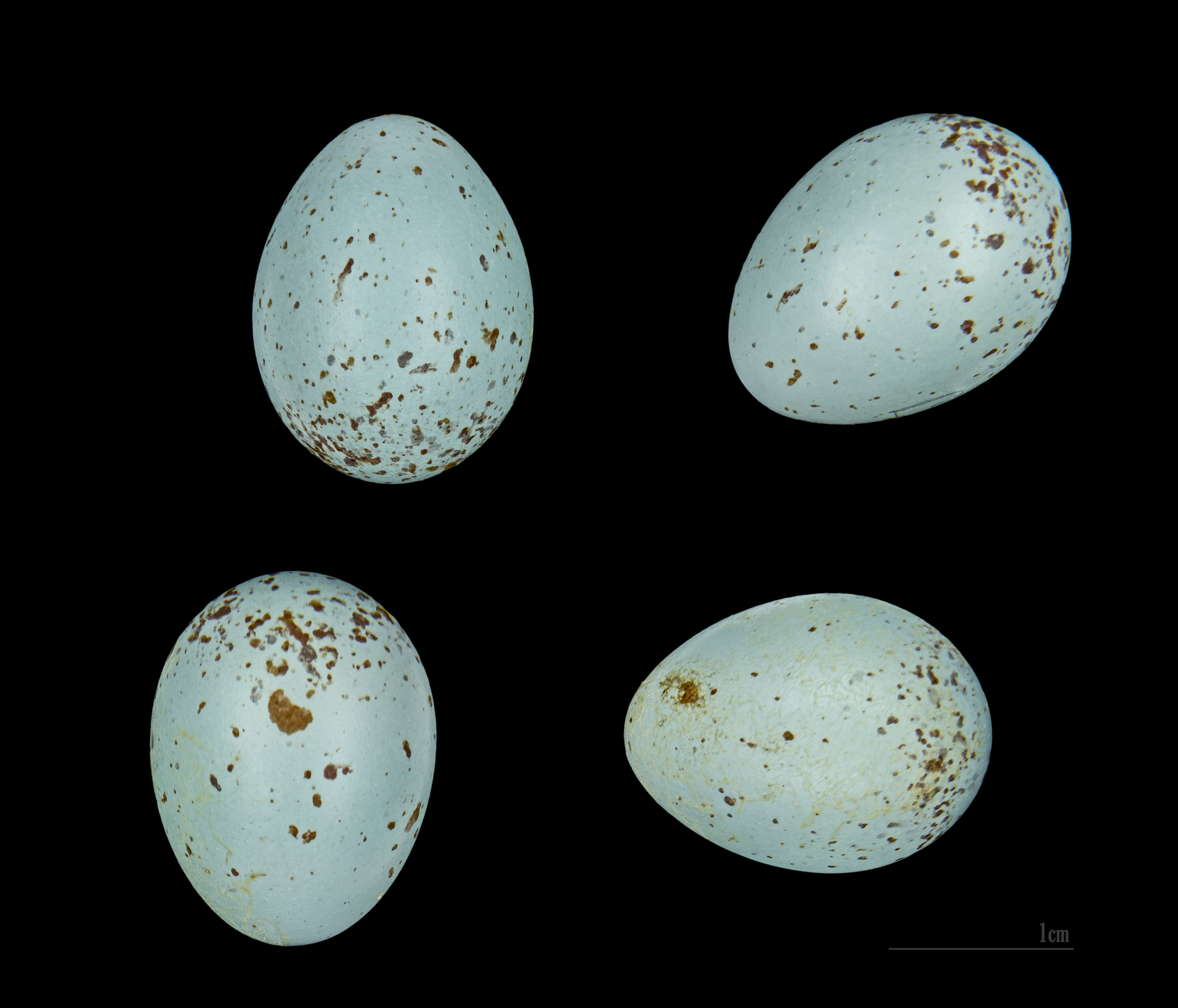 Egg of Black-eared Wheatear. Collection of Henri Heim de Balsac /Jacques Perrin de Brichambaut.